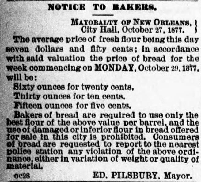 1877 notice to bakers in New Orleans, regulating prices, weights, and flour quality used for bread, from New Orleans Mayor Edward Pilsbury.